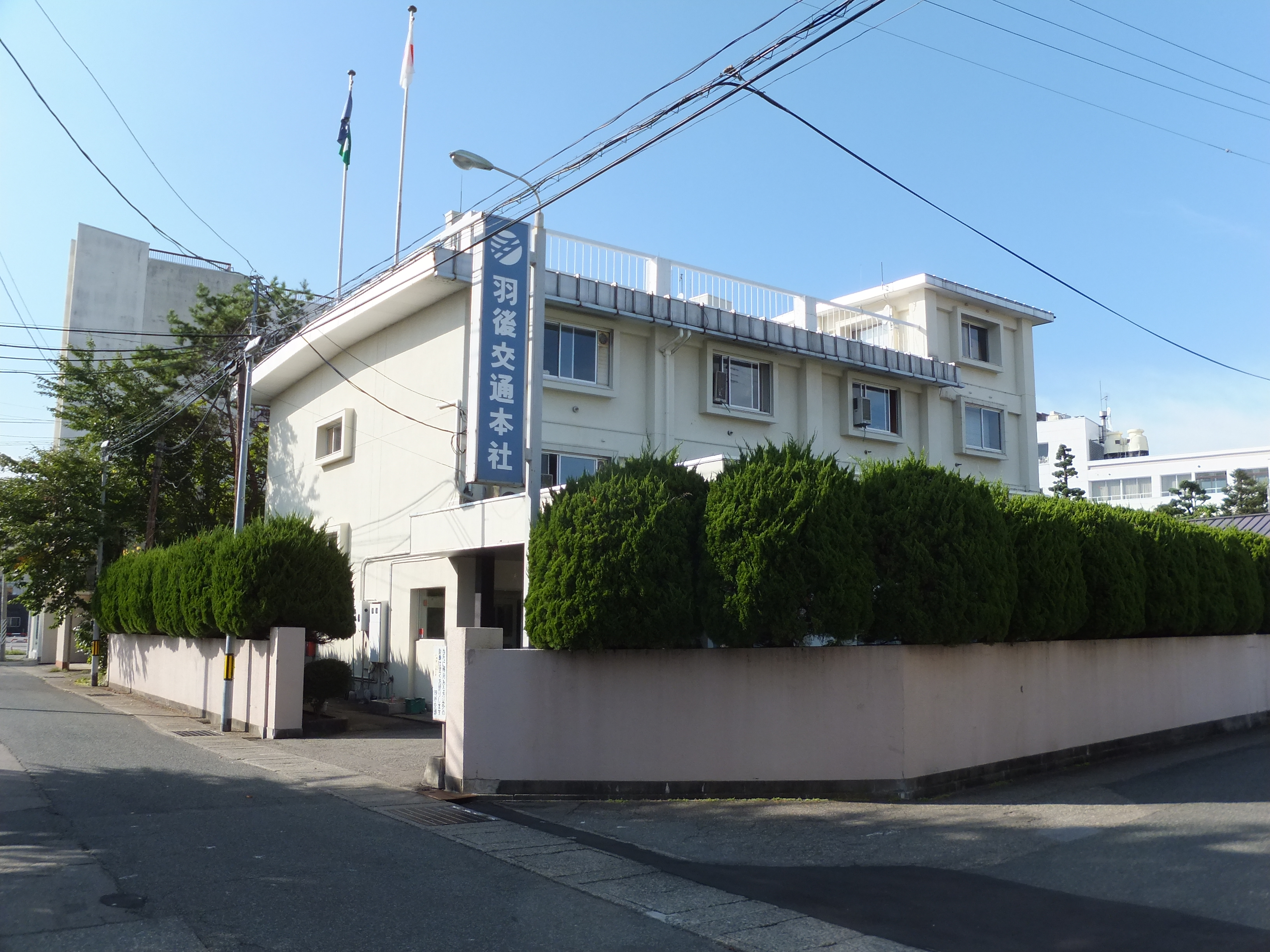 Headquarters of the Ugo Kotsu Co,. Ltd. located in Yokote, Akita, Japan